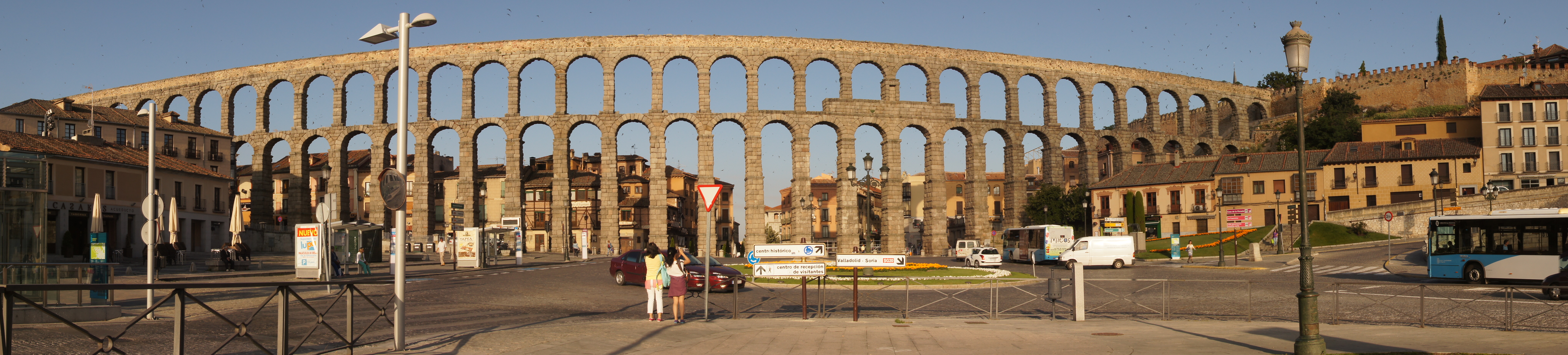 Panorama view of Aqueduct of Segovia in 2014